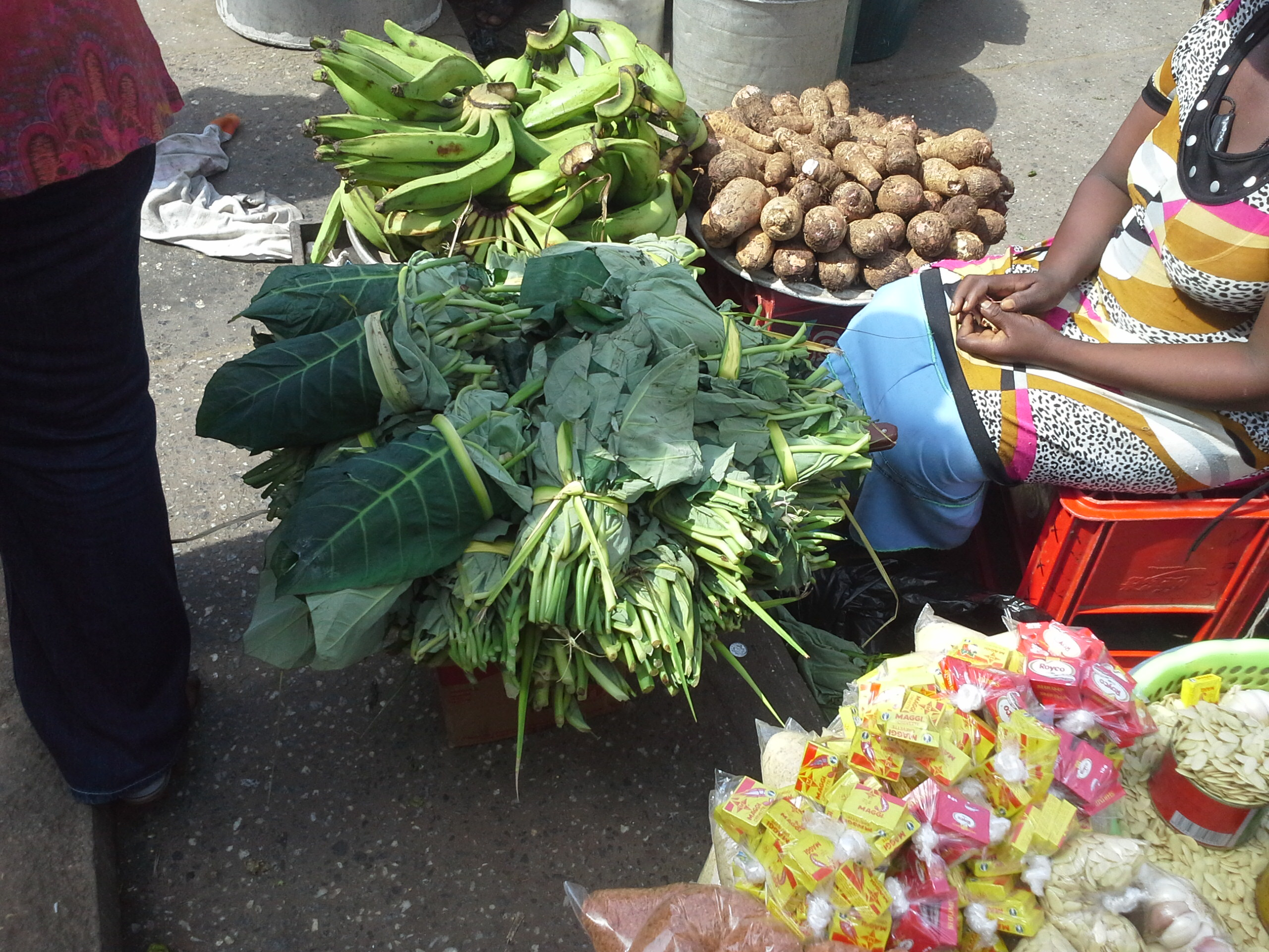 Kontomire is the leave of the the cocoyam plant. Kontomire is used to prepare meals. Popular ones include Palava Sauce a Ghanaian delicacy.